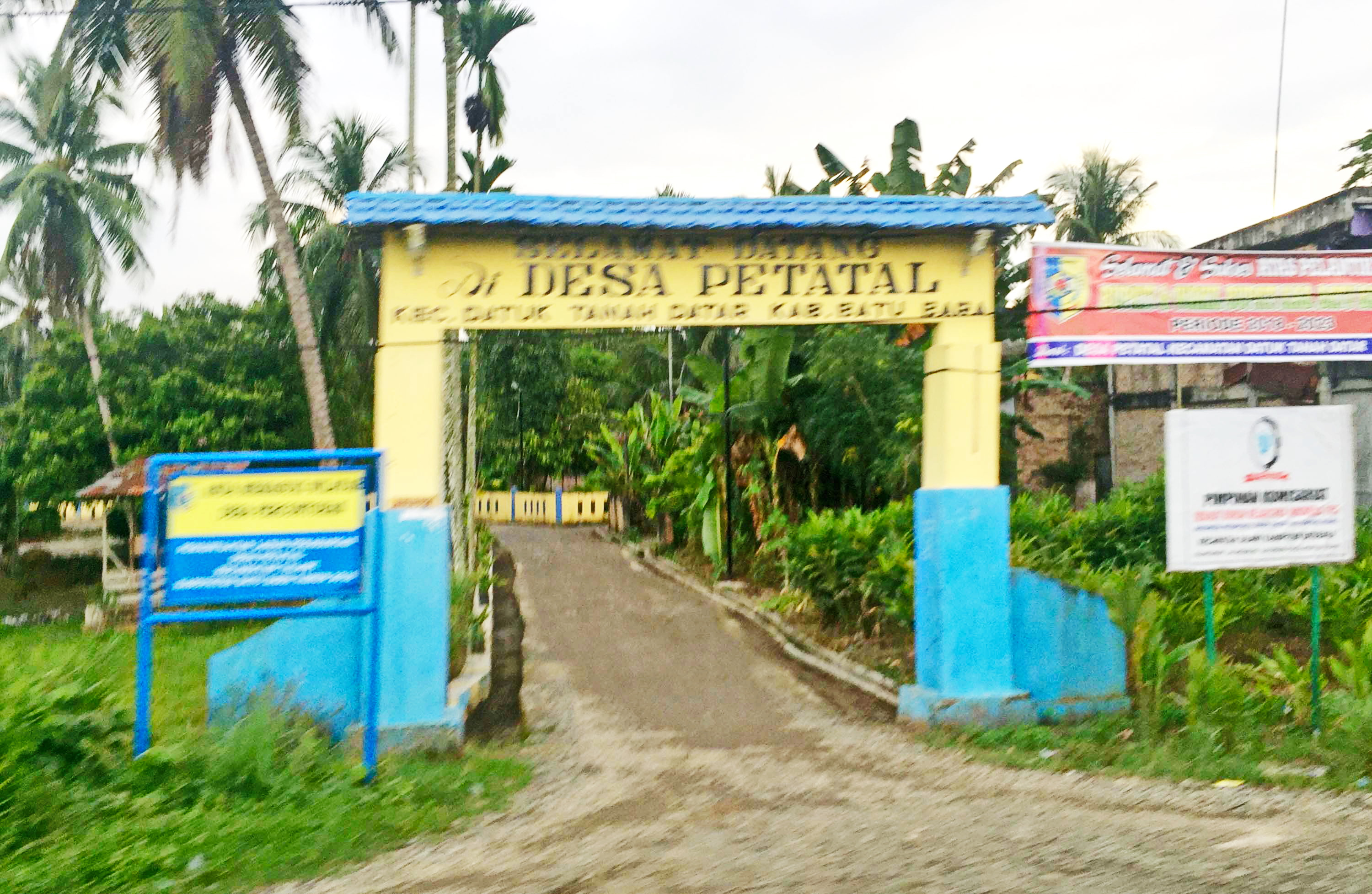 welcome gate to Petatal, Talawi, Batu Bara